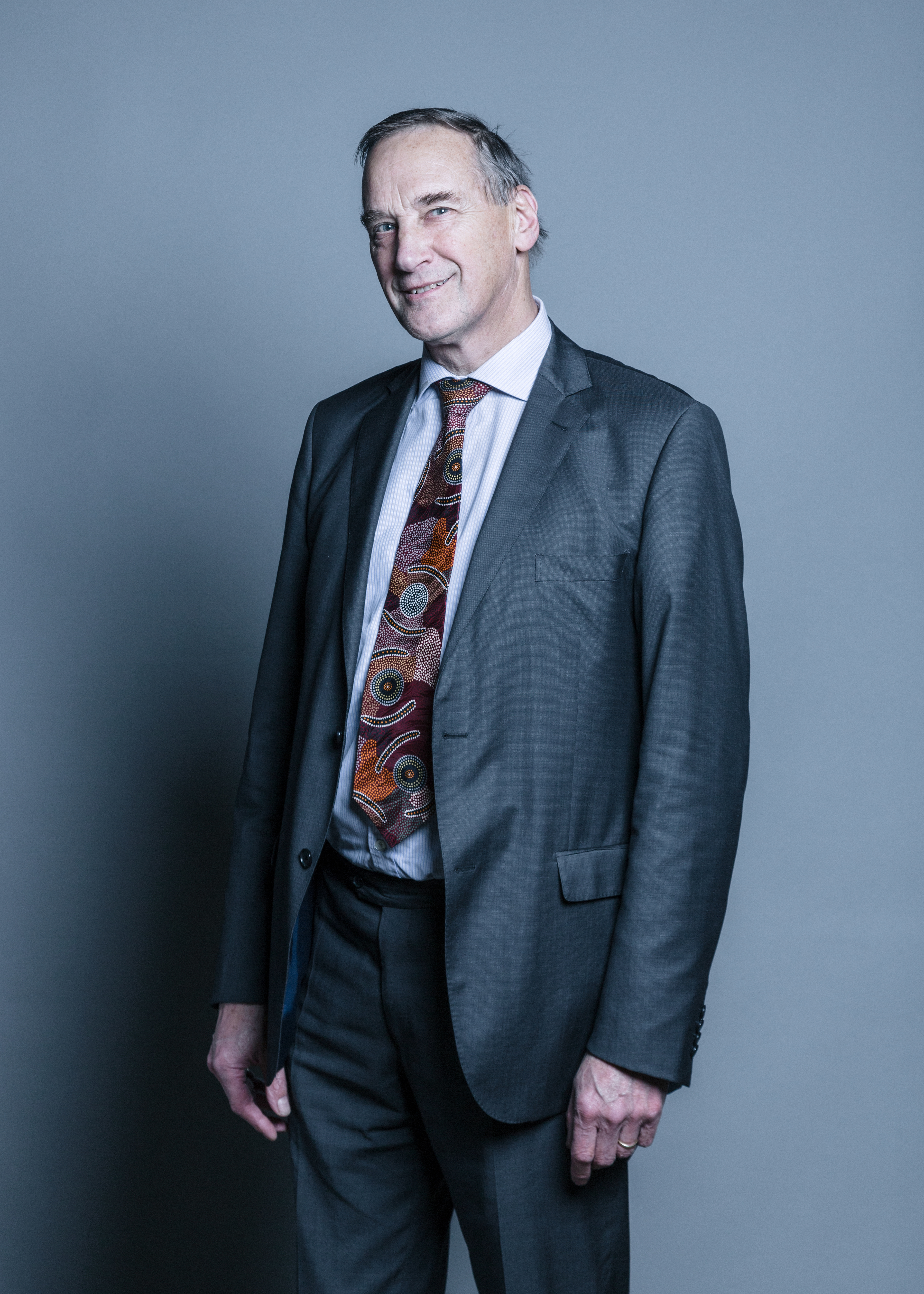 Official portrait of The Earl of Lytton